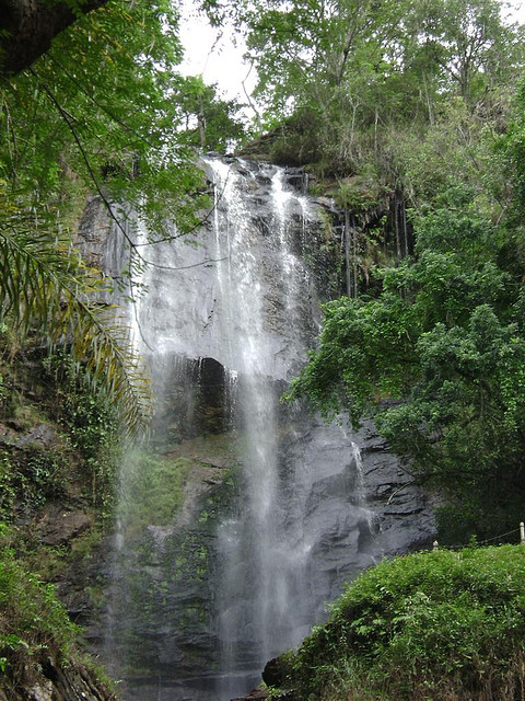 Waterfall in Parque_Estadual_do_Ibitipoca, in Lima Duarte, Minas Gerais, Brazil.